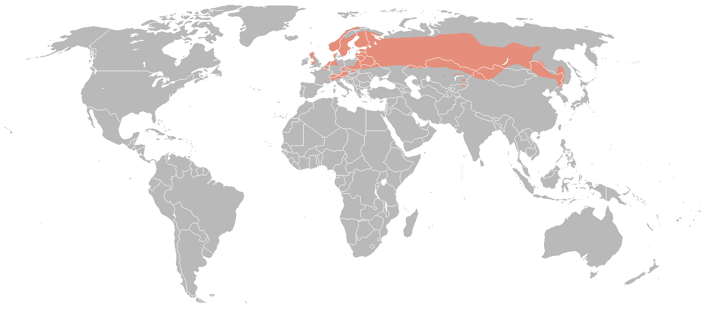 Black Grouse (Lyrurus tetrix) distribution map